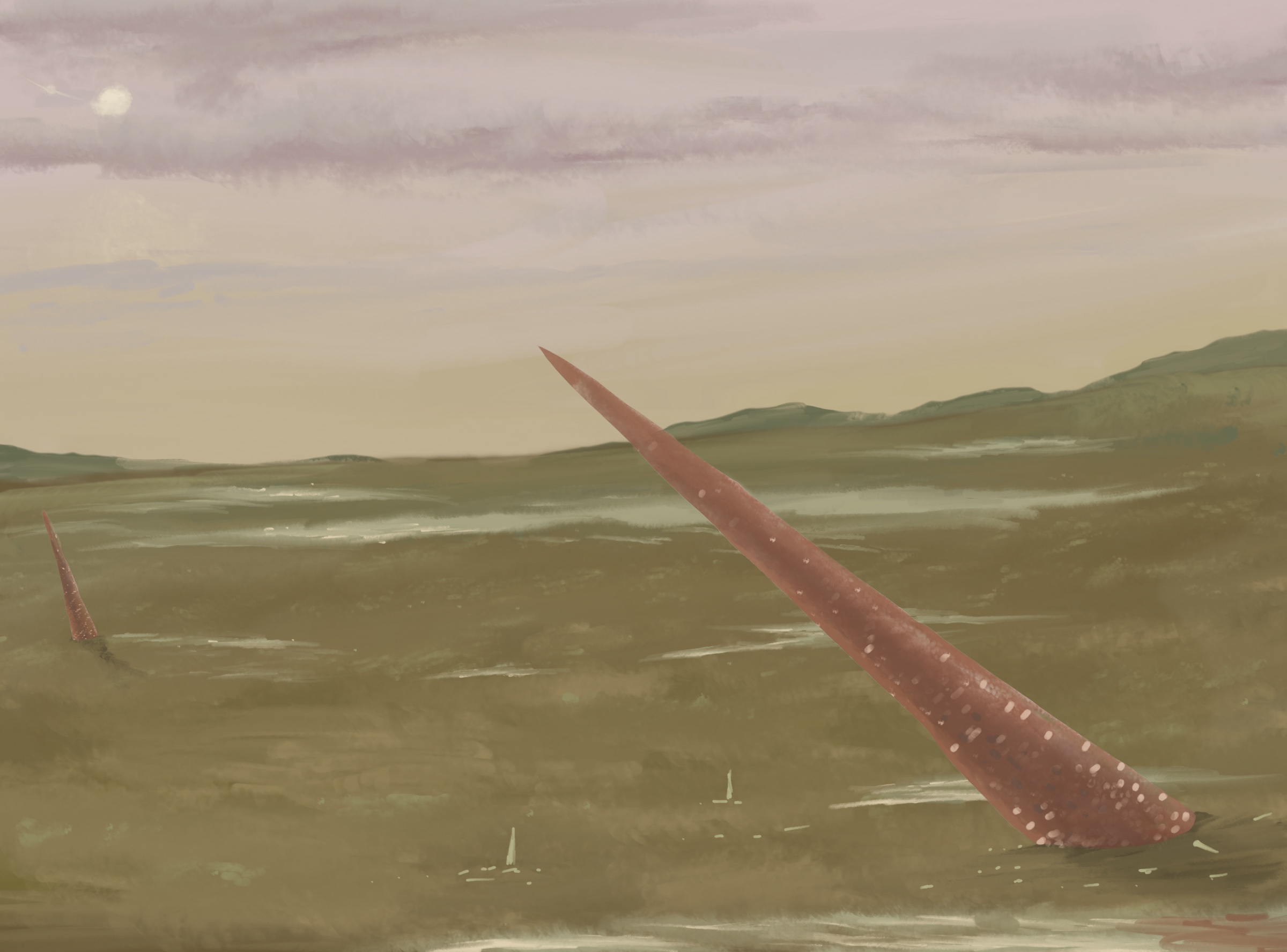 After Glaciation and a Gamma Ray Burst, the most energetic and explosive force in the universe, strikes earth during the late Ordovician, the shallows of the ocean are left dry and barren. Cameroceras shells are seen like towers in an alien new world, scarred permanently by a blast from a distant dying star.